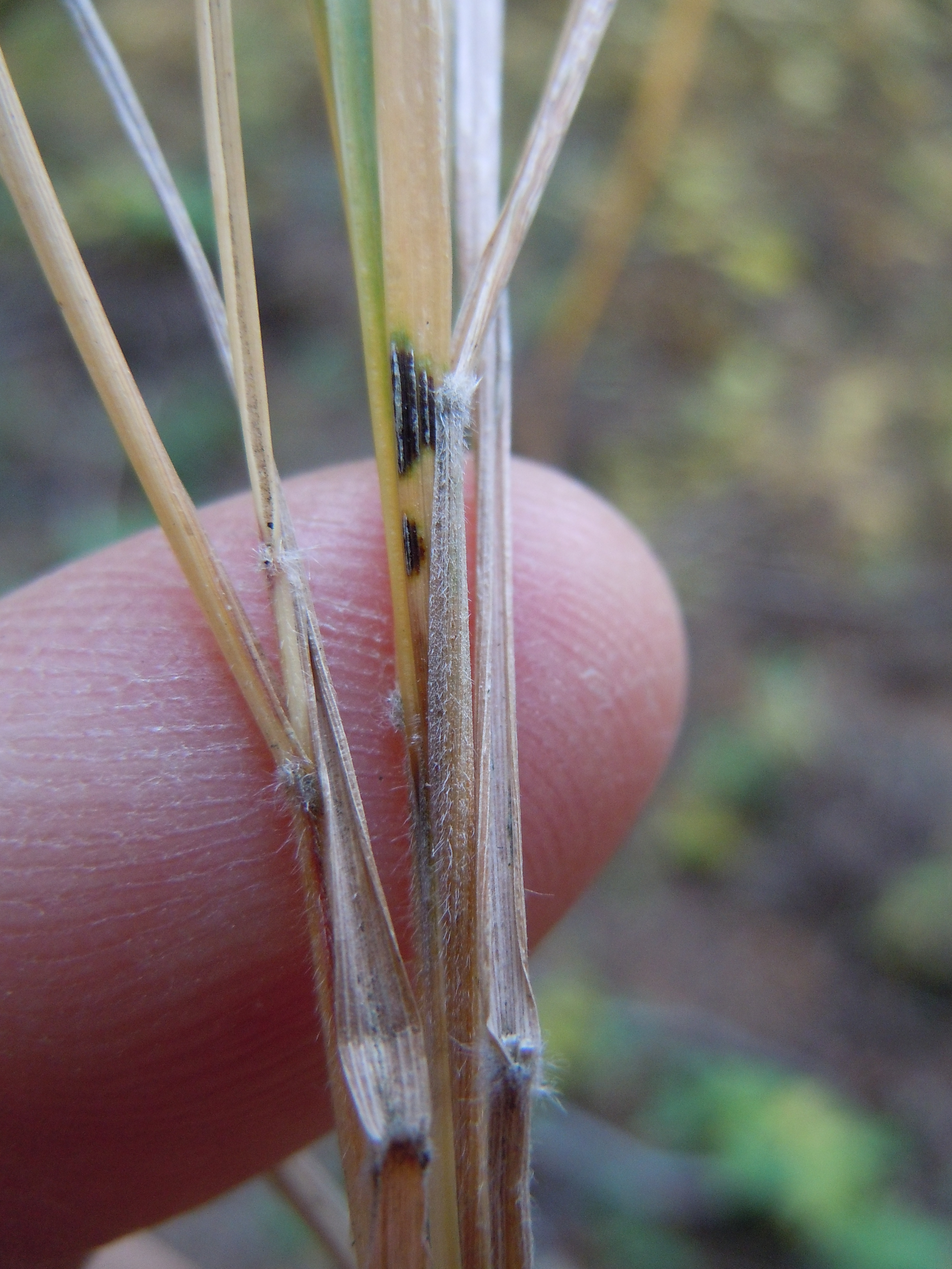 The leaf sheaths are often distinctly longer and more densely hairy in the region of the collar.